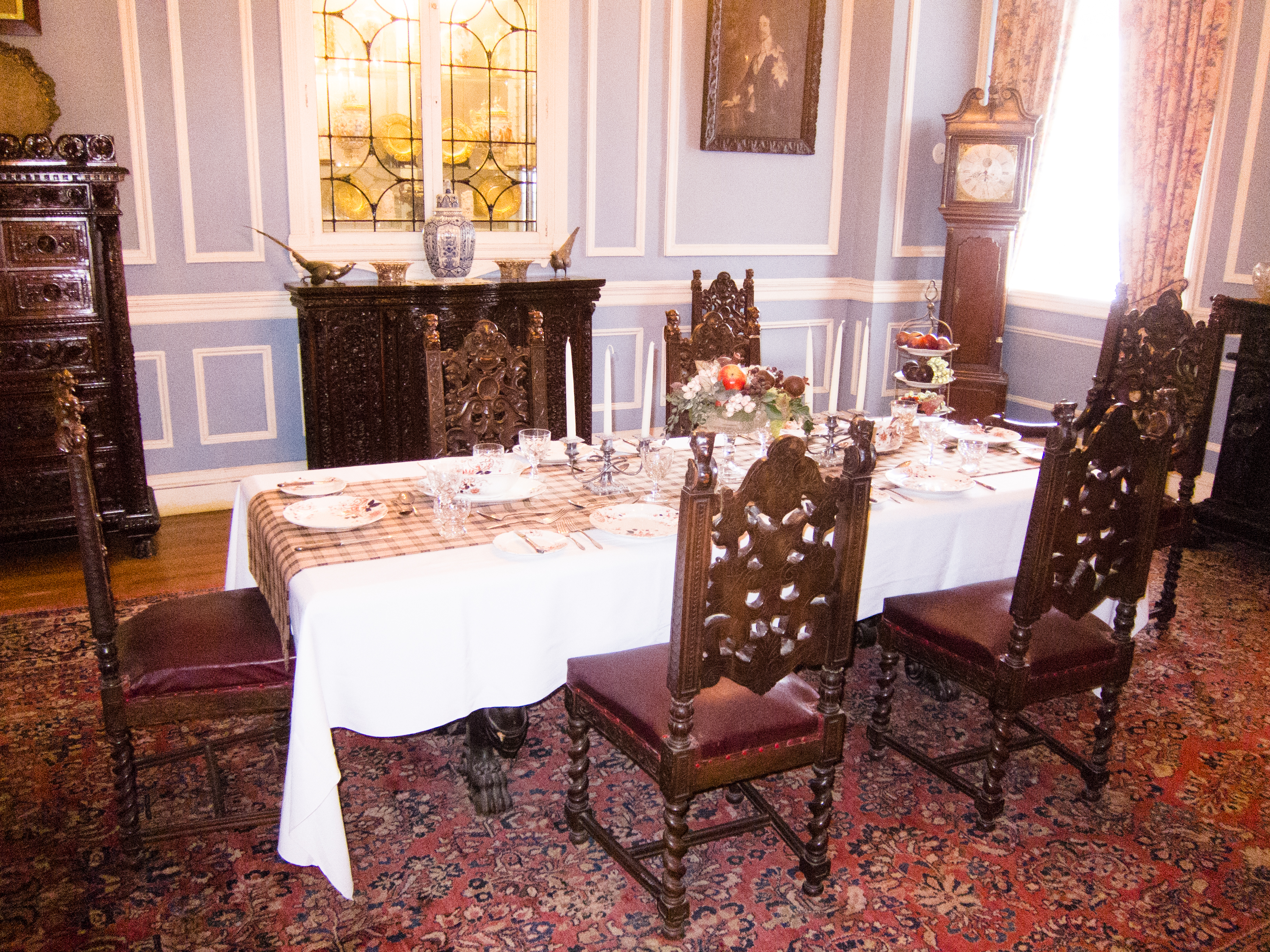 The Serving Room at Casa Loma at 1 Austin Terrace in Toronto, Ontario (Canada).